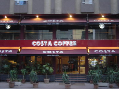 The only Costa in the world on two floors - Starbucks competitor